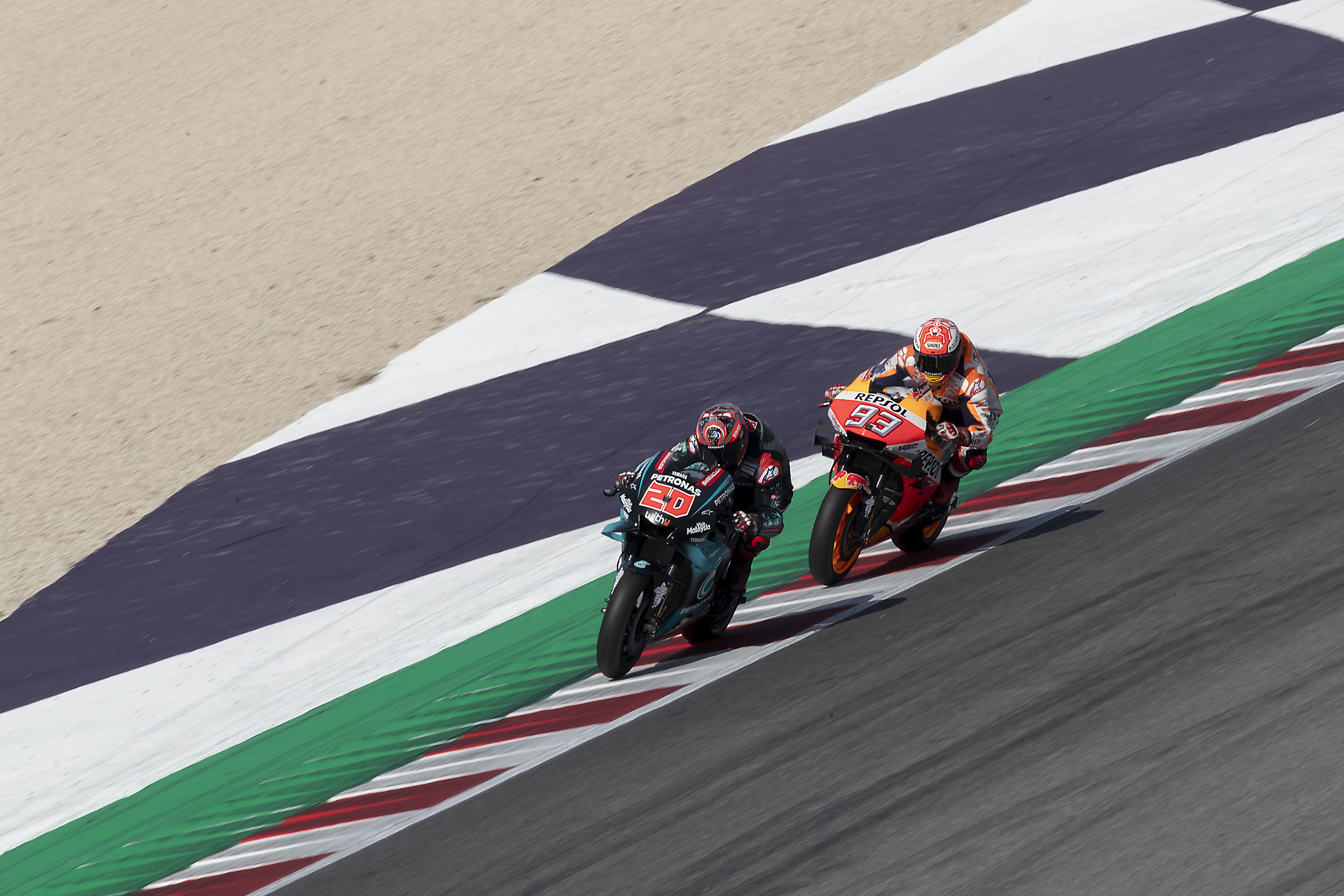 Fabio Quartararo, riding his Petronas SRT Yamaha, being closely followed by the Repsol Honda of Marc Márquez at the 2019 San Marino and Rimini's Coast Grand Prix.